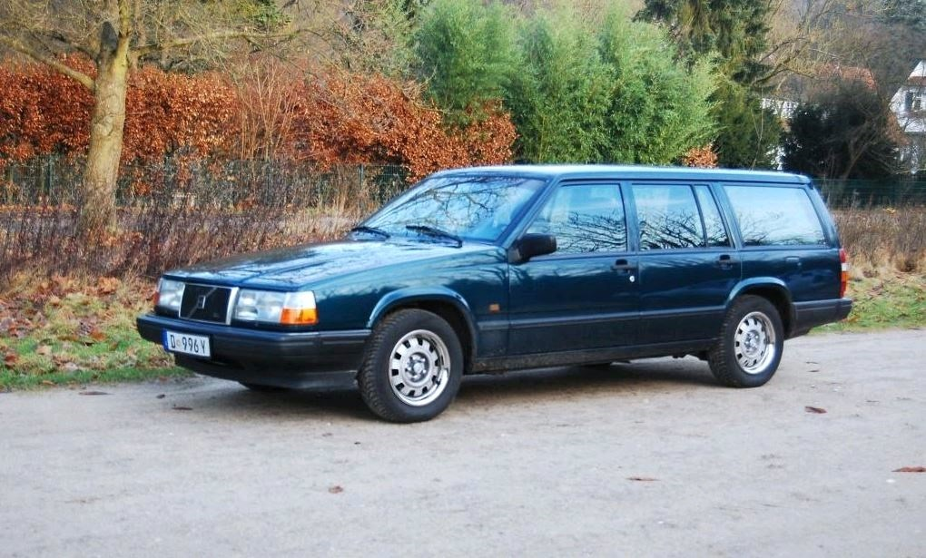 Volvo 945 MY 1993; on Series 740 steel wheels with small hub caps. Colour: Teal Green metallic, Code 412.